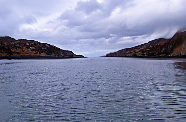 Crowlin Harbour This fine natural harbour is well sheltered from the prevailing westerly winds. Those dark specks are not dirt in the camera - a couple of dozen seals came to see what I was doing there!